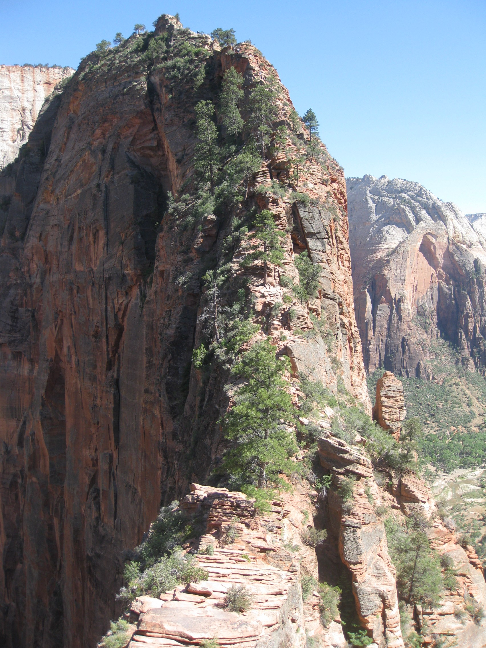 Path to Angels Landing — Zion National Park.